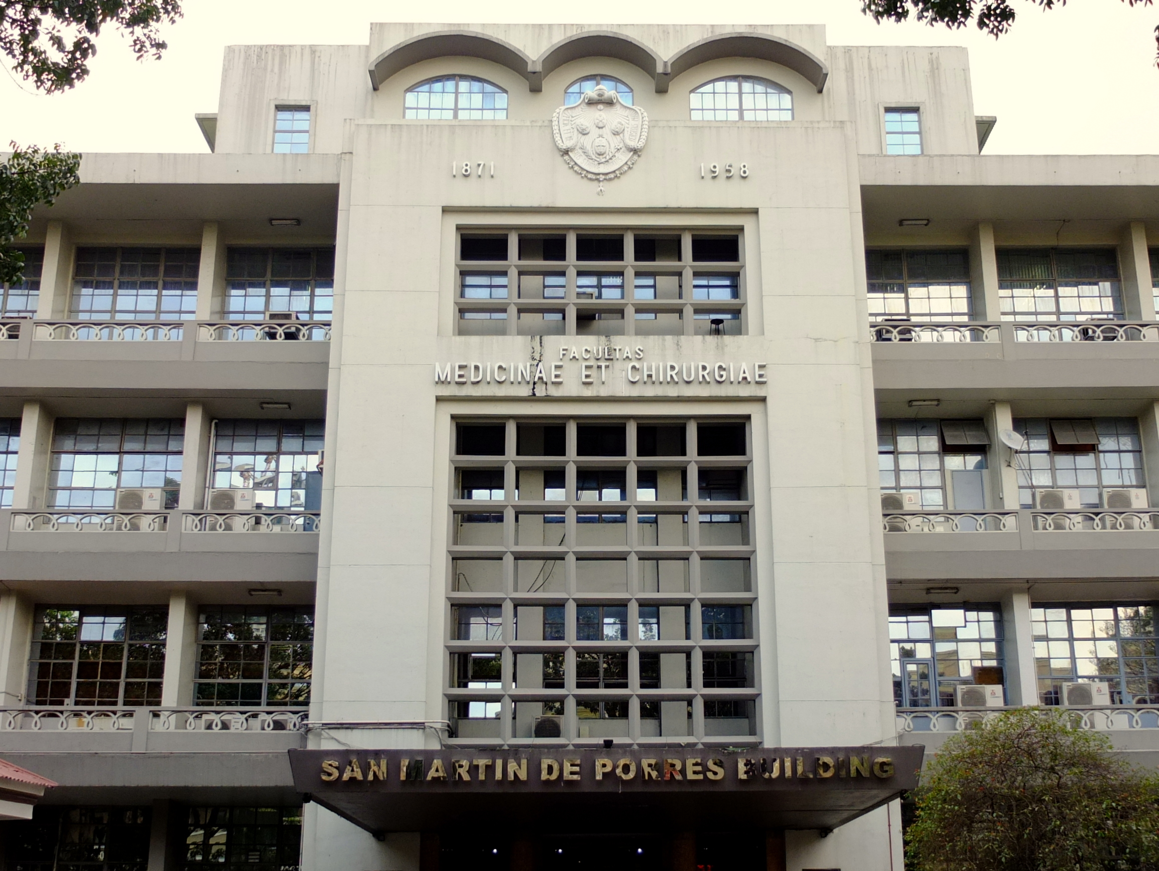 Facade of St. Martin de Porres Building